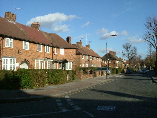 Bryony Road Bryony Road at the junction of Yew Tree Road and Wormholt Road in the Wormholt Estate, W12